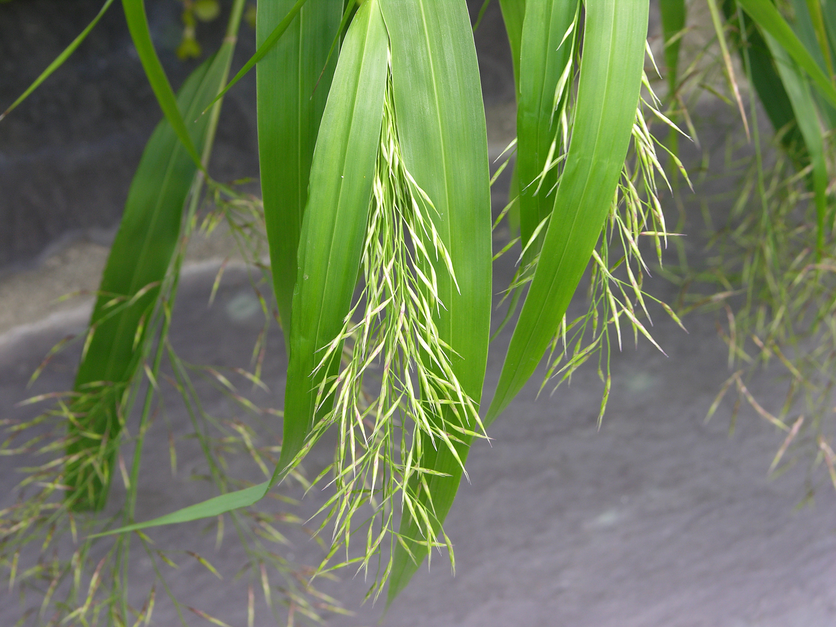 A closeup picture of the Hakonechloa macra en 'All Gold' plant. Photo taken at the Chanticleer Garden where it was identified.